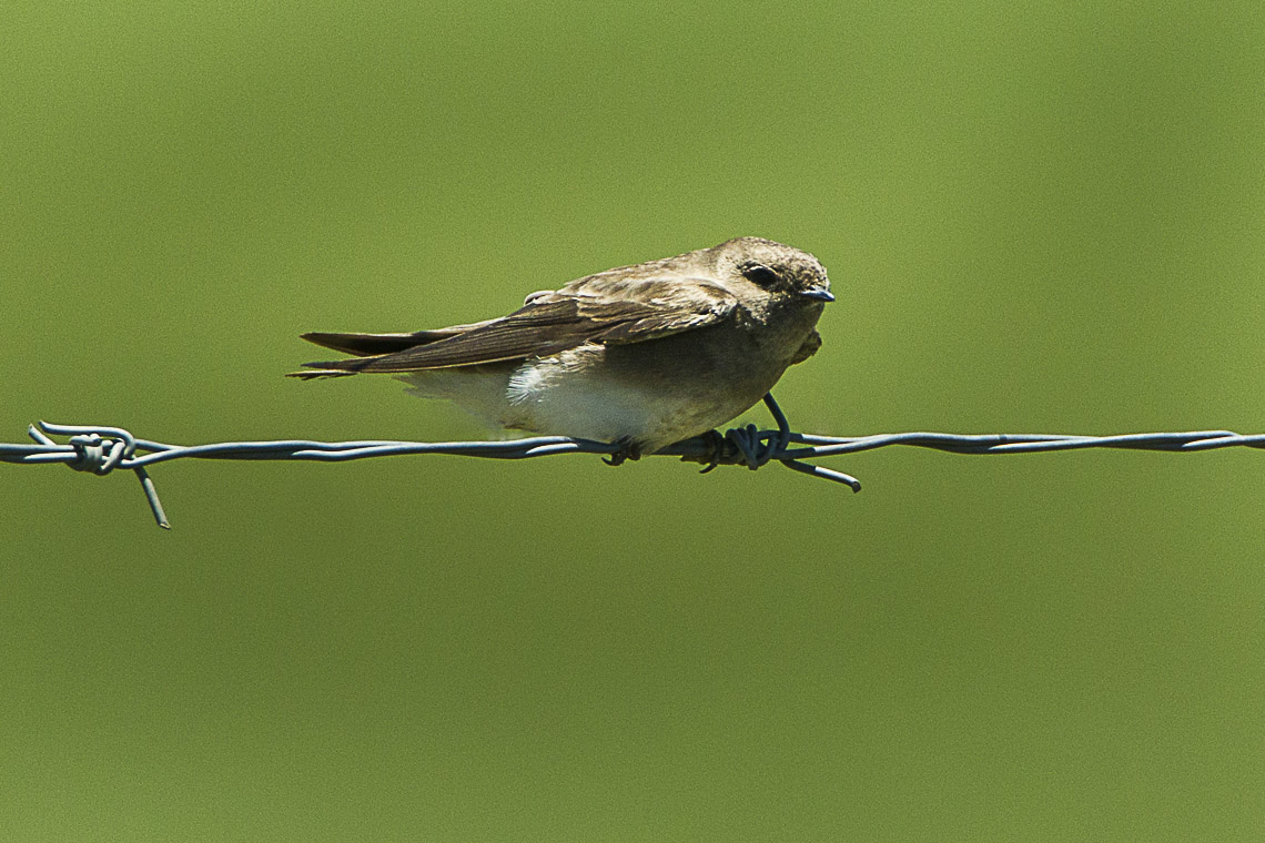 Plain Martin - Natal - South Africa_S4E6445